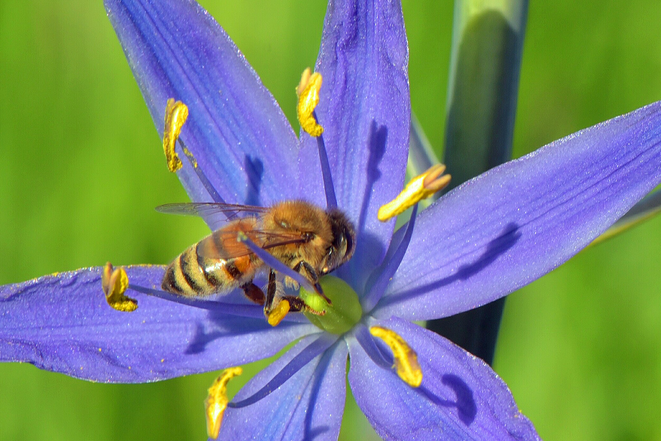 honey bee on camas flower